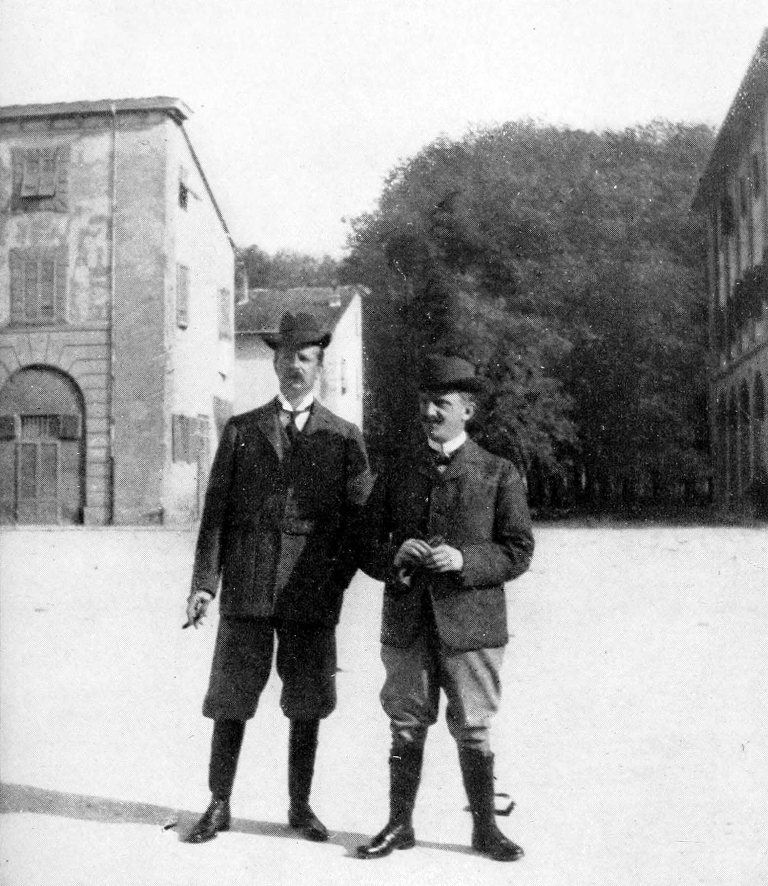 George von Lengerke Meyer, United States businessman, diplomat and politician from Massachusetts, with Victor Emmanuel III of Italy in November 1903 in San Rossore